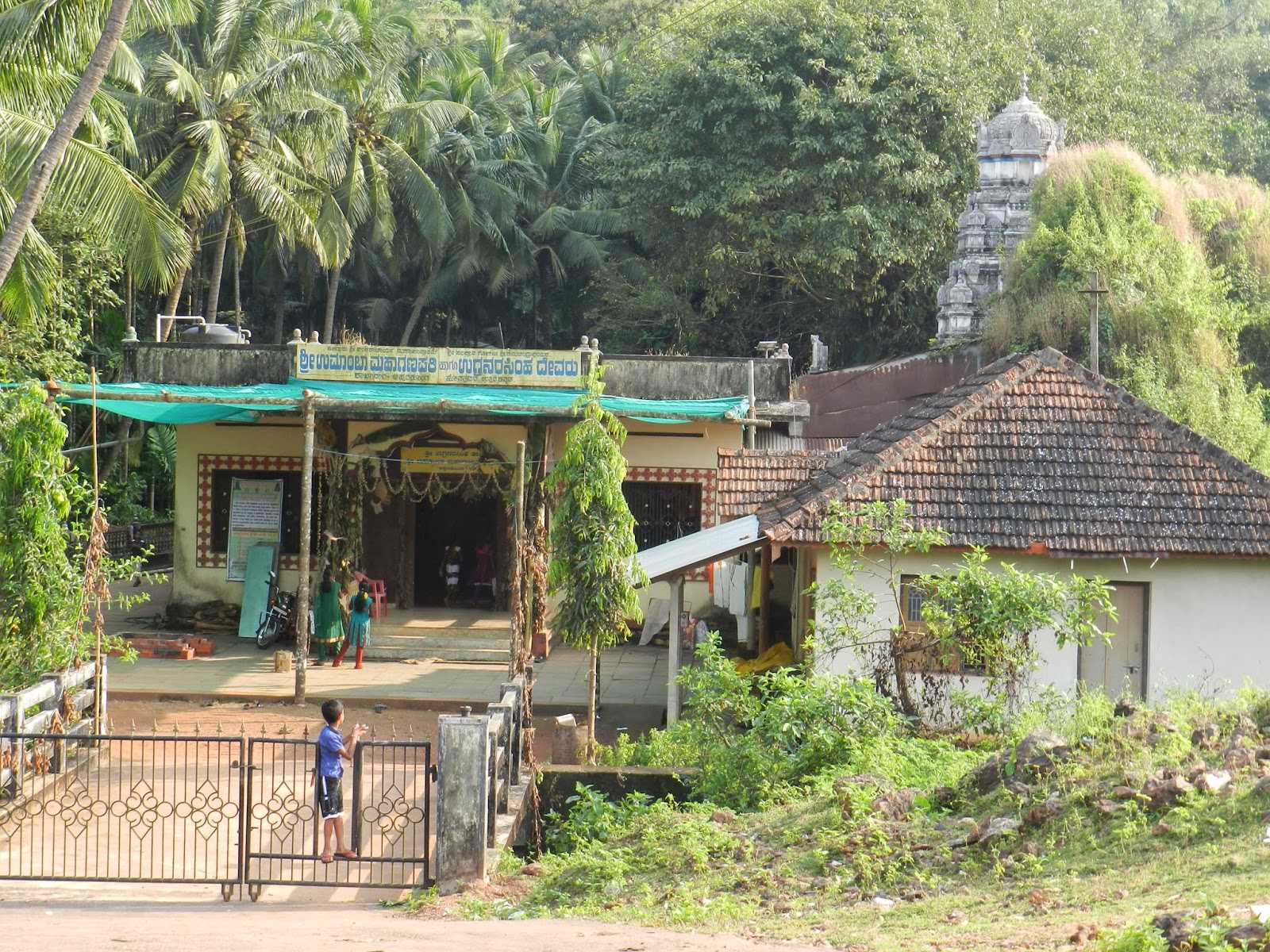 Apasarakonda beach near Honnavar